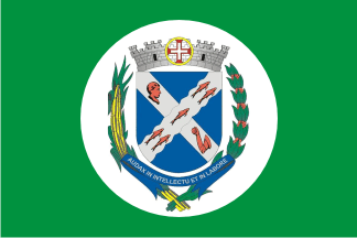 Flag of the city of Piracicaba, State of São Paulo, Brazil